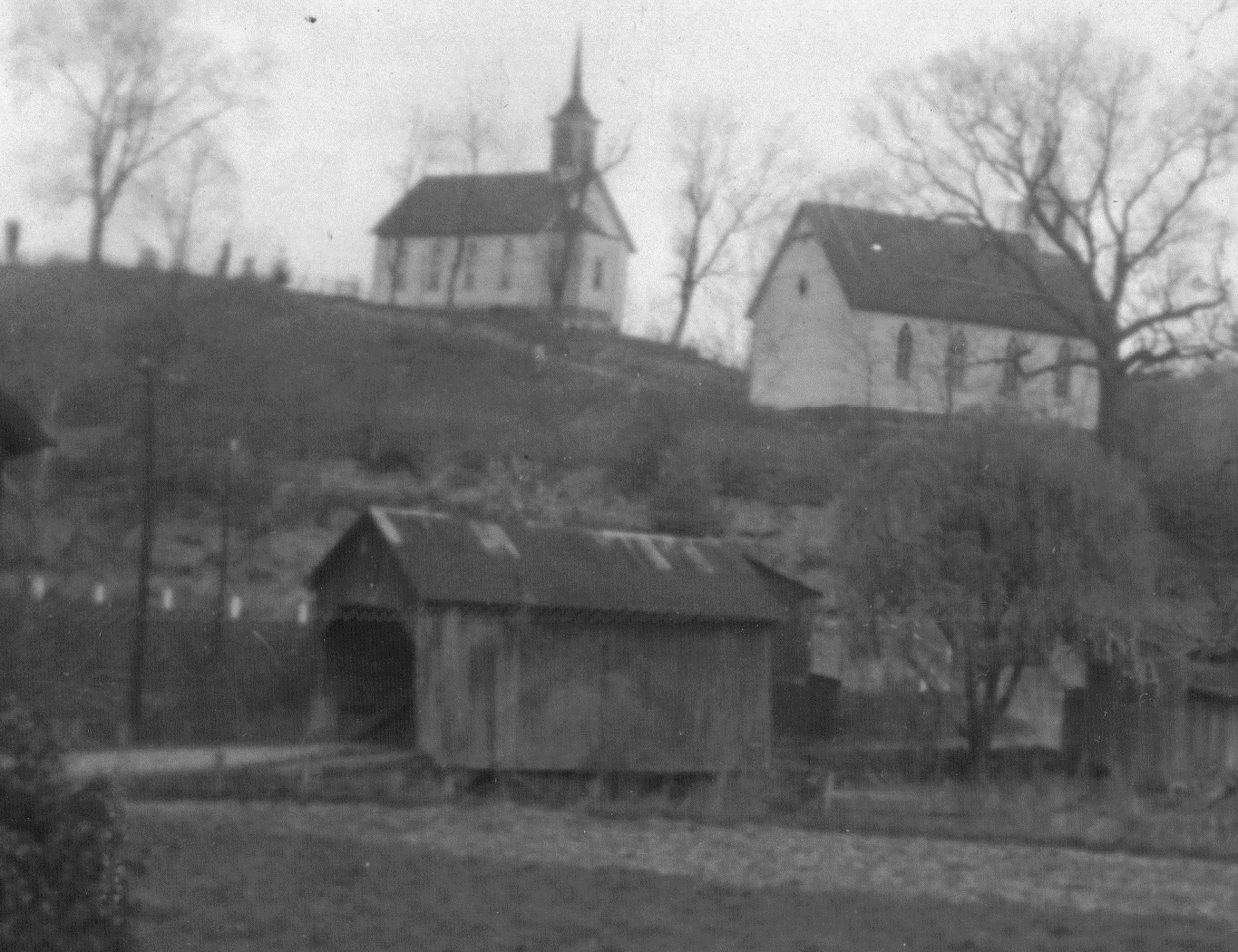 The Wadestown Covered Bridge at Wadestown, Monongalia County, West Virginia, USA. It spans a branch of Dunkard's creek. (The West Warren Baptist Church & Wadestown Baptist Church are behind.)